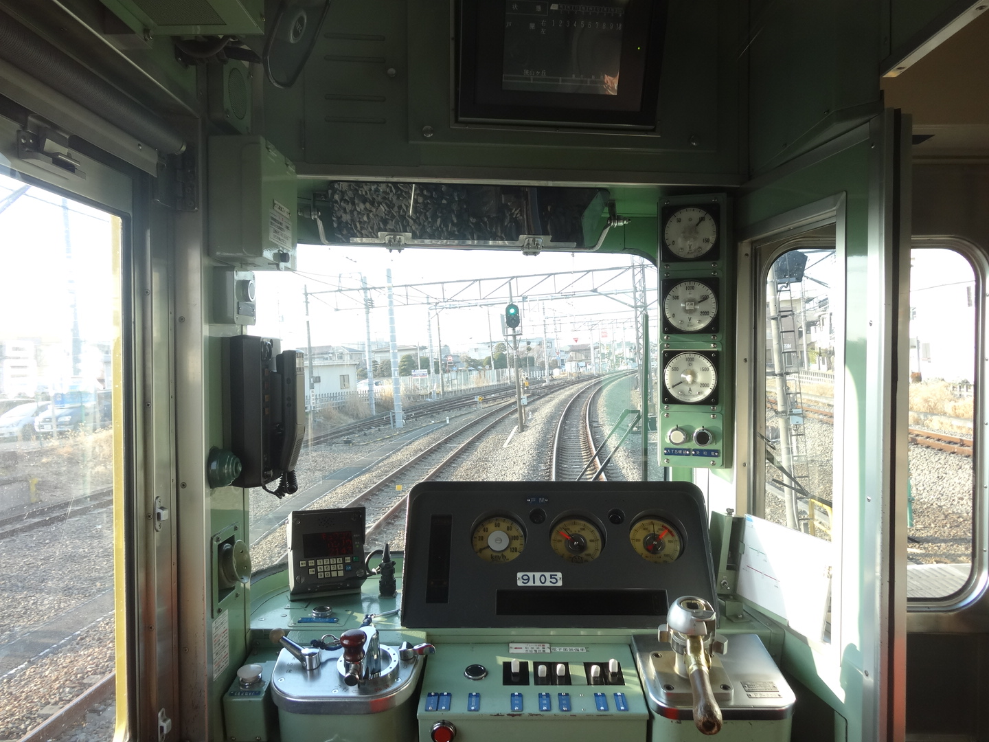 Driver's cabin of Seibu Railway 9105F train